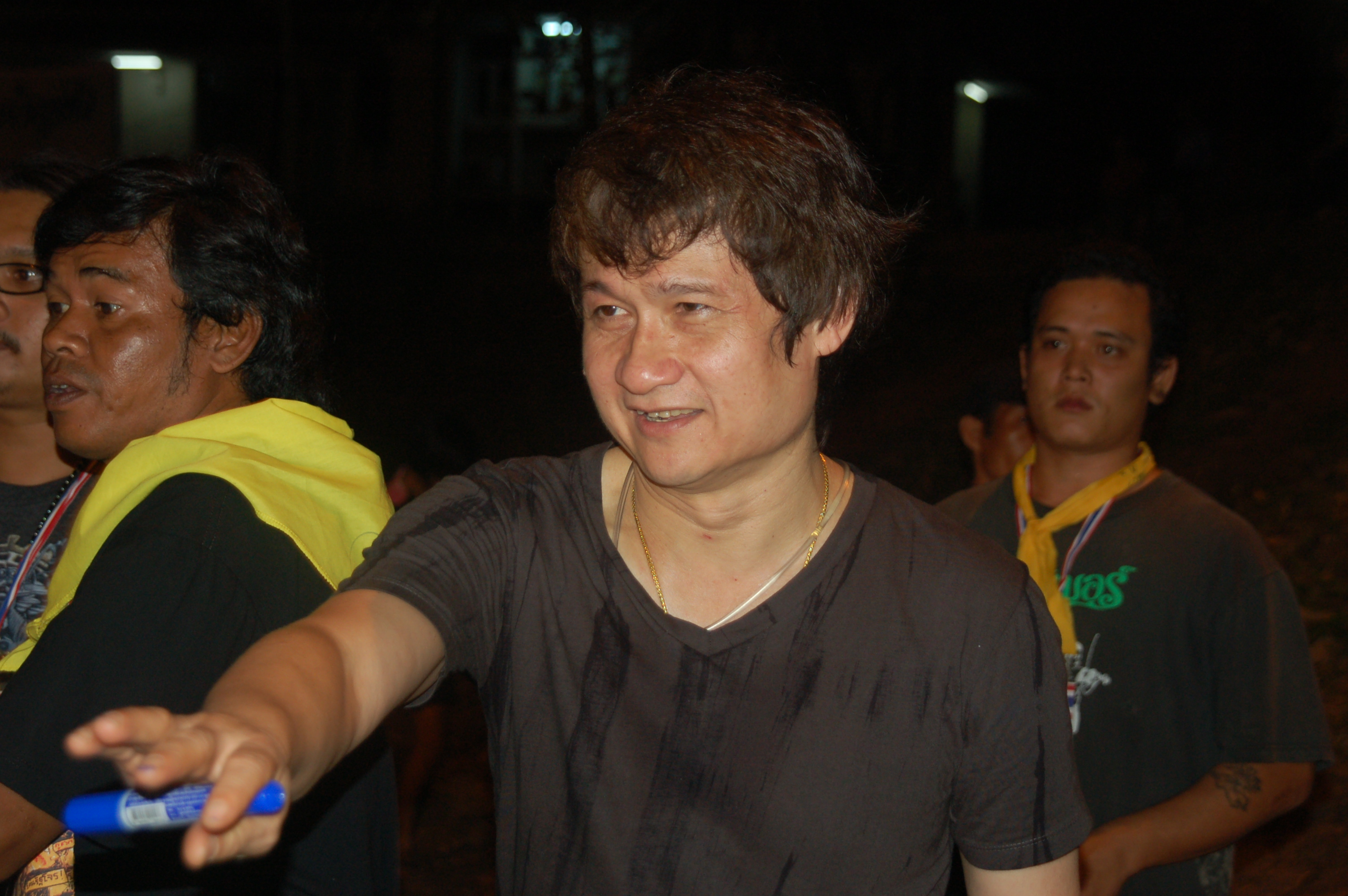 Chatchai Sukkawadi (ชัชชัย สุขขาวดี) a.k.a. Rang Rockestra (หรั่ง ร็อคเคสตร้า) giving autograph after a concert in Trang province, Thailand.